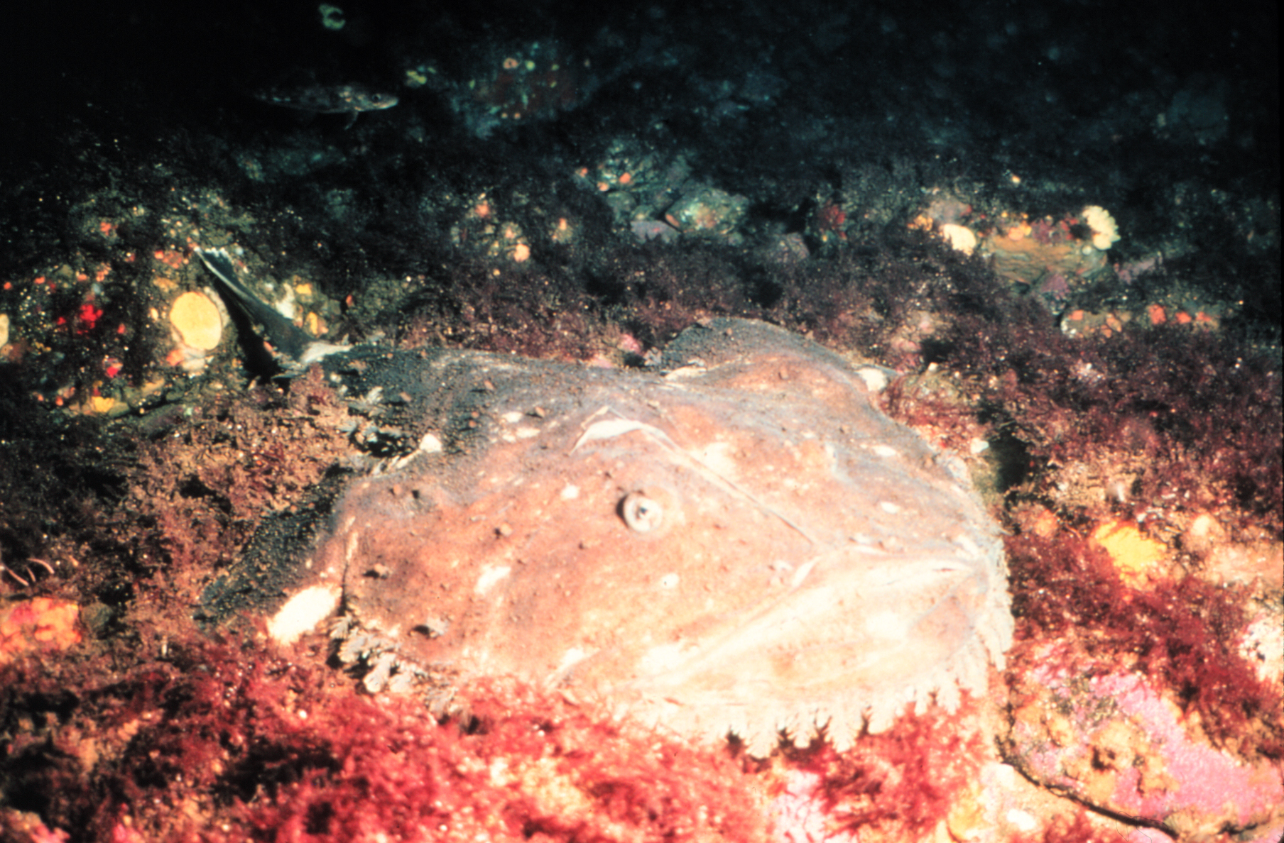 Goosefish, Lophius americanus, laying camoflaged on a northern rocky reef.